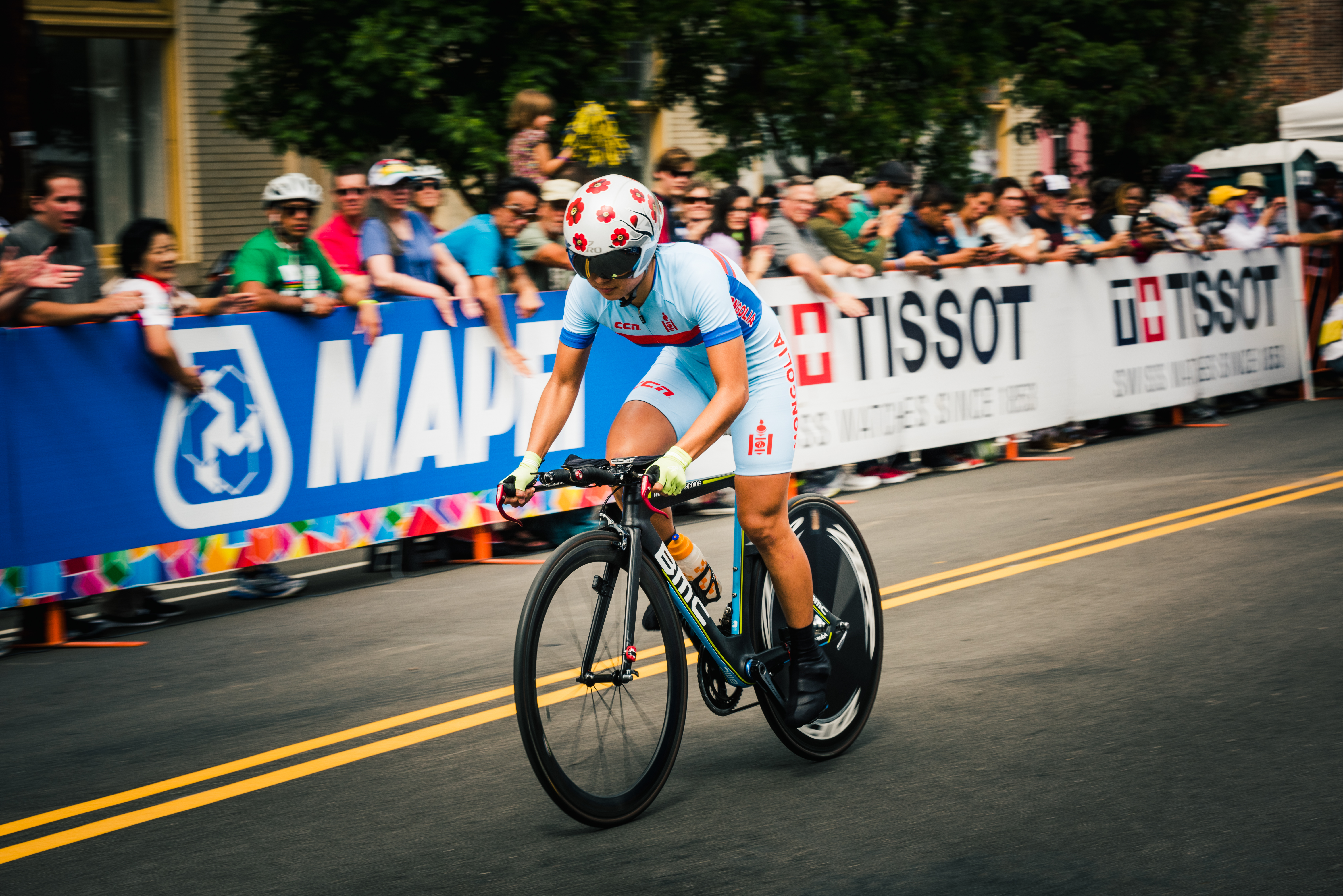 UCI Bike Race 2015 Richmond, VA 2015 UCI Road World Championships – Women's time trial in Richmond, USA